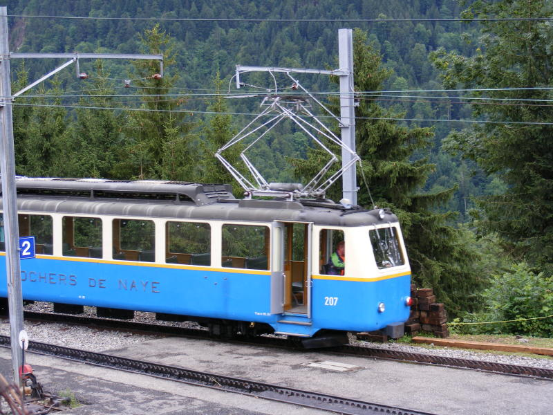 A train pulls into Caux, Switzerland, on its way down the hill from the Rochers de Naye